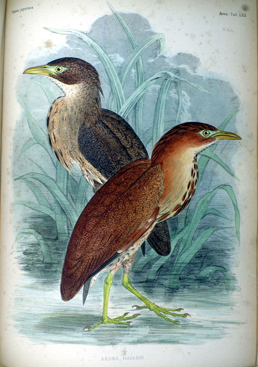 An illustration of a Japanese Night Heron from Fauna Japonica